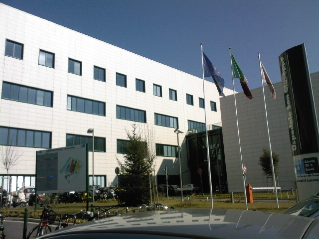 San Giuseppe Hospital (Empoli)